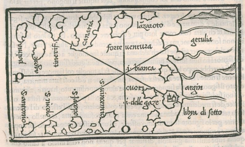 Map of the Canaries and Cape Verde islands, contained in Benedetto Bordone's book Isolario, 1534 edition